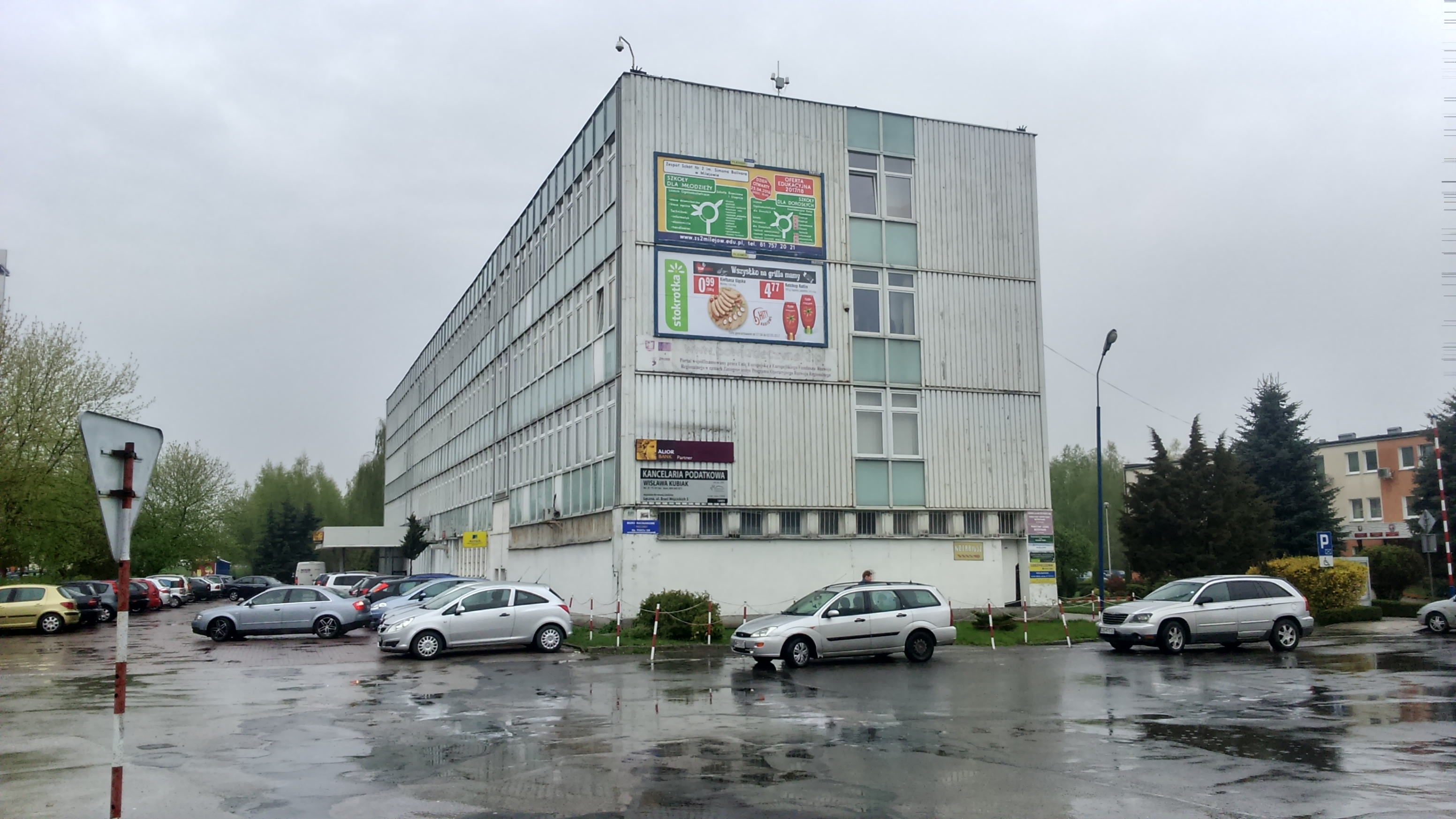 Łęczna201704